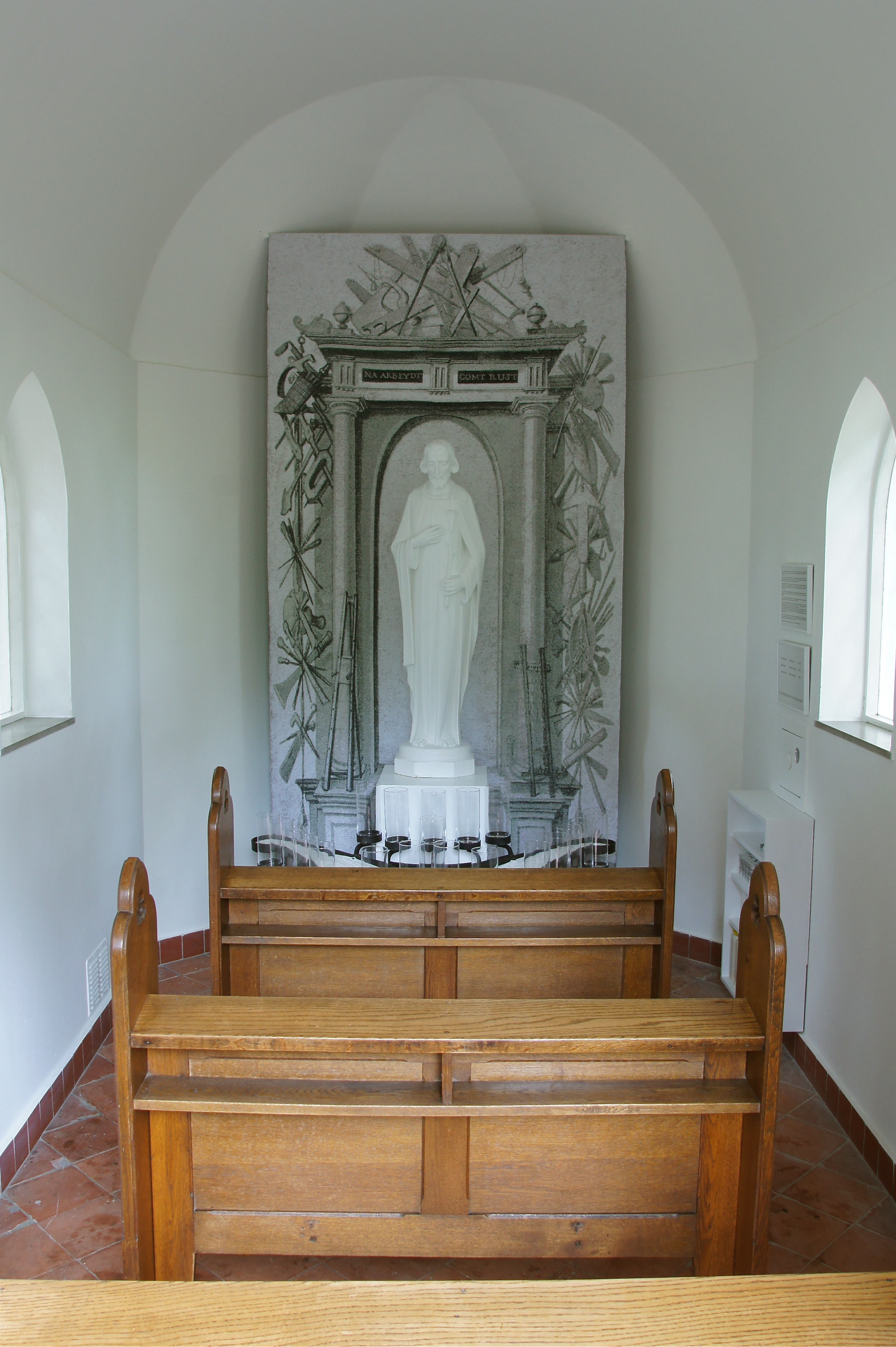 St. Jozef Kapel in Biest-Houtakker interieur